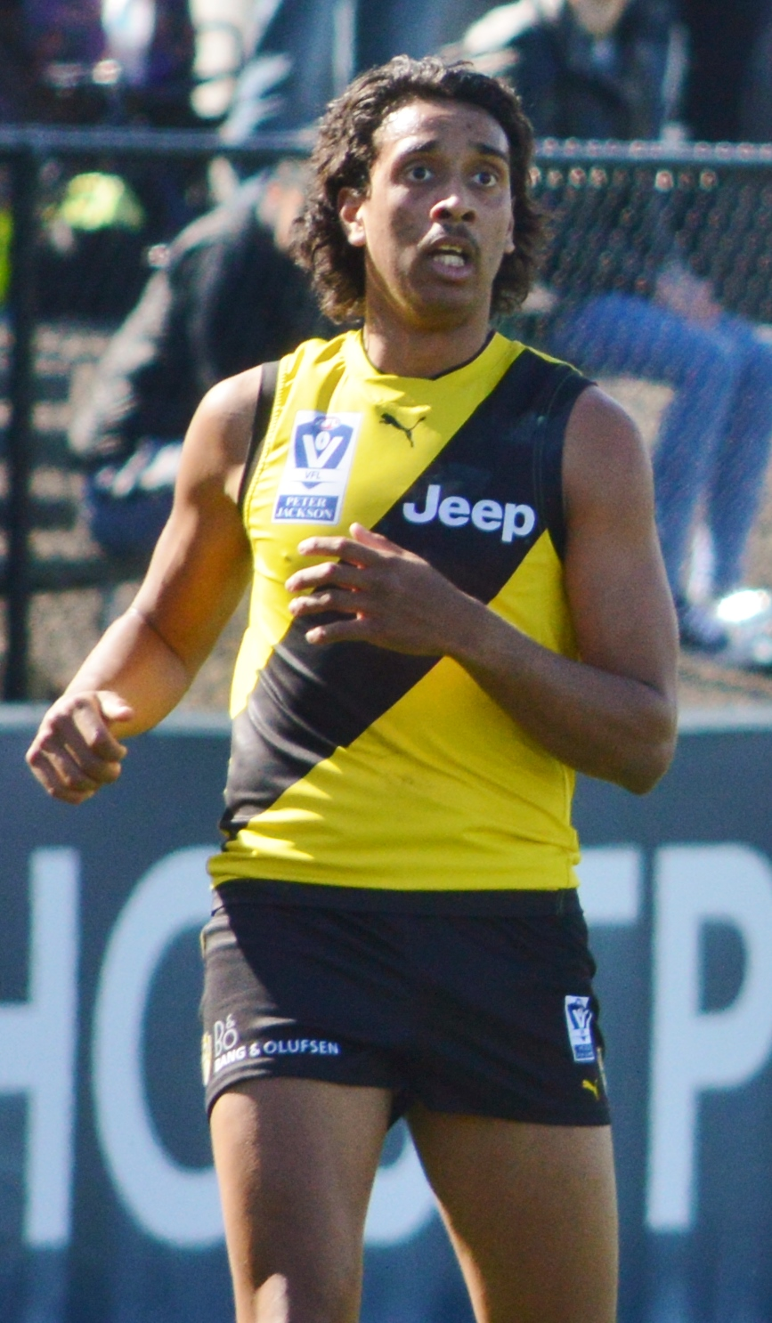 Derek Smith with Richmond in a VFL match against Sandringham at Punt Road Oval in August 2017